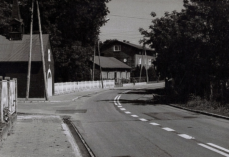 Kaplica wiejska - Przełajka